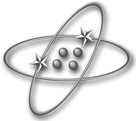 US Navy Electronics Technician (ET). A helium atom.